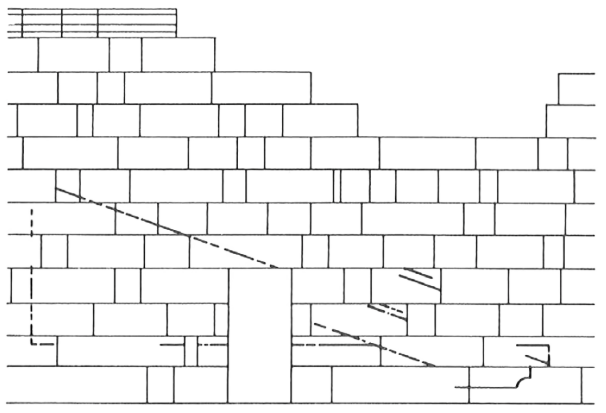 Architectural etches on Roman temple of Bziza. The image was digitized and augmented from a sketch published in 2016 by Antonio Corso in Drawings in Greek and Roman architecture